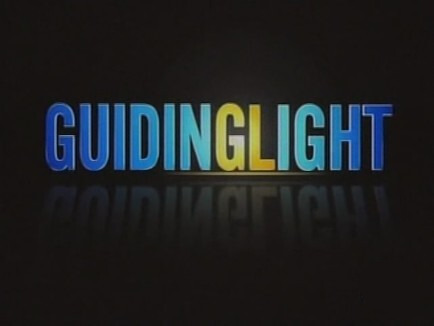 Title card for Guiding Light, the longest running serial drama in the history of audiovisual entertainment media, being a radio program for 14 years and then a television program for 57 years.